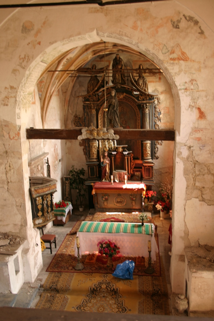 General look on prezbitery part of the st. Lawrence church in Gorysławice (Wiślica)